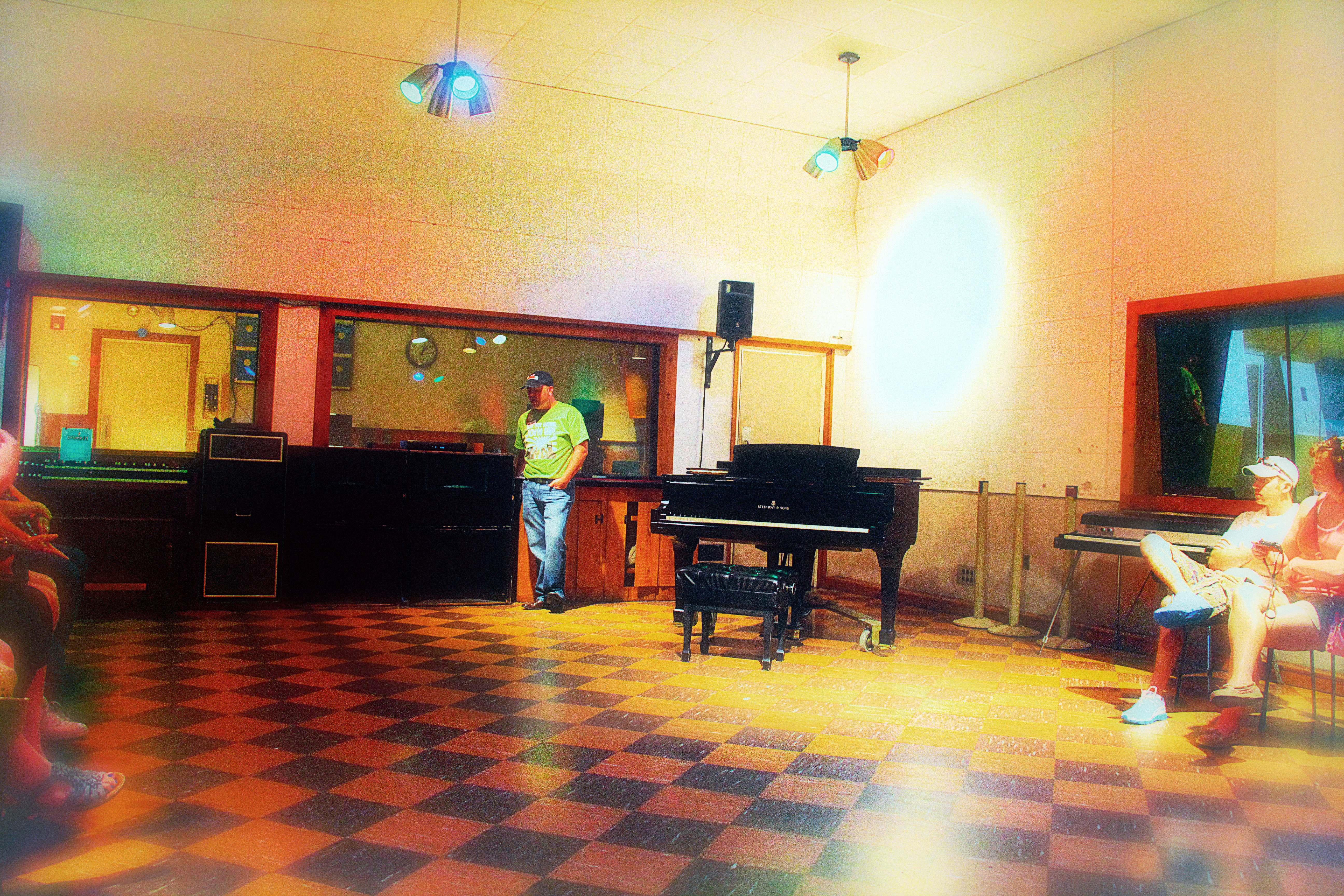 RCA Studio B Main Recording Room